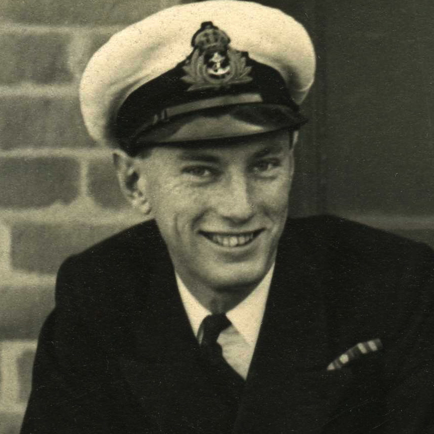 Monochrome photograph of head and shoulders of smiling young man (Lieutenant John Paul Wild RNVR) in white Royal Navy officer's cap and naval uniform. Taken ca 1946.